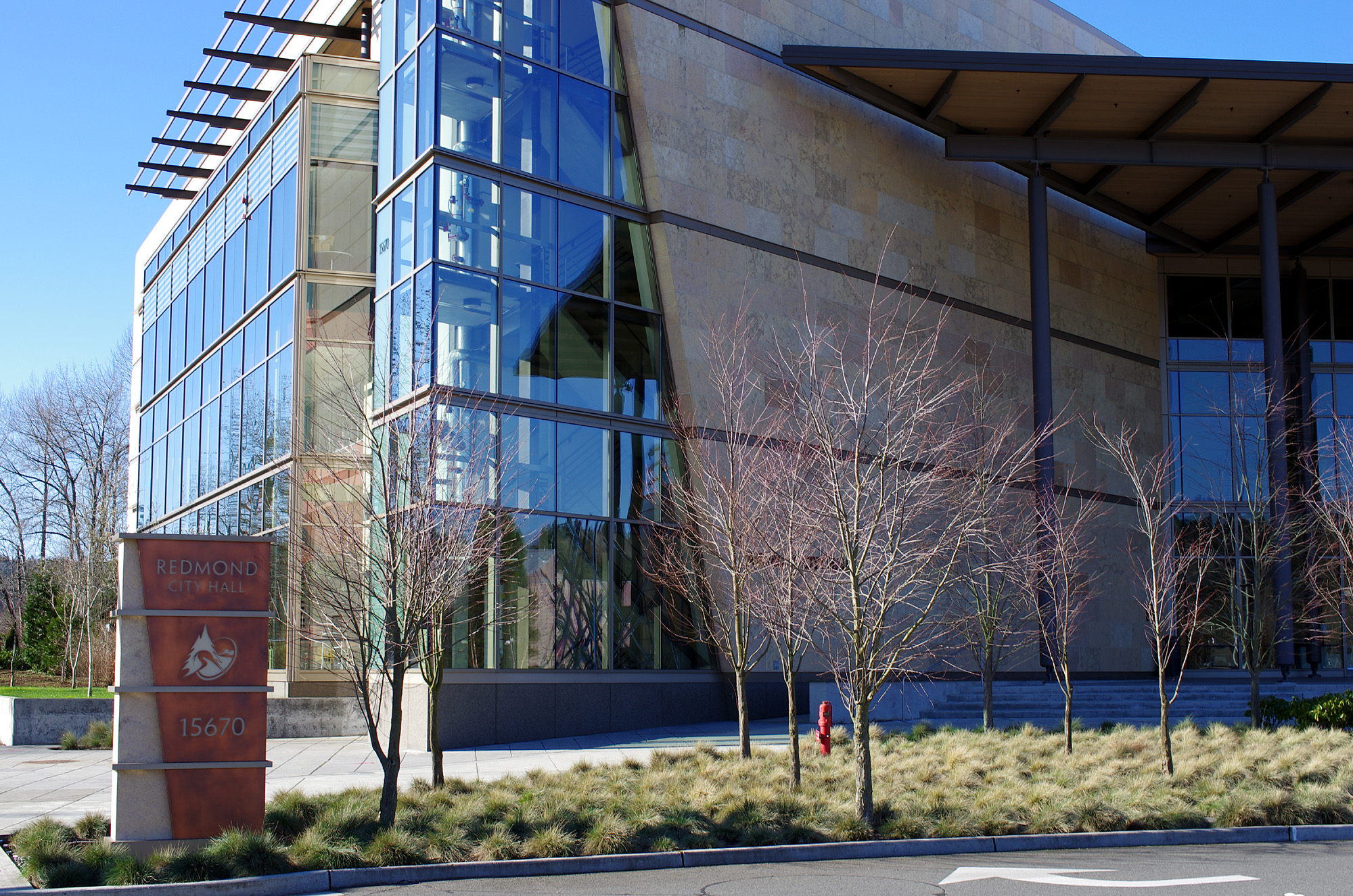 City hall of Redmond